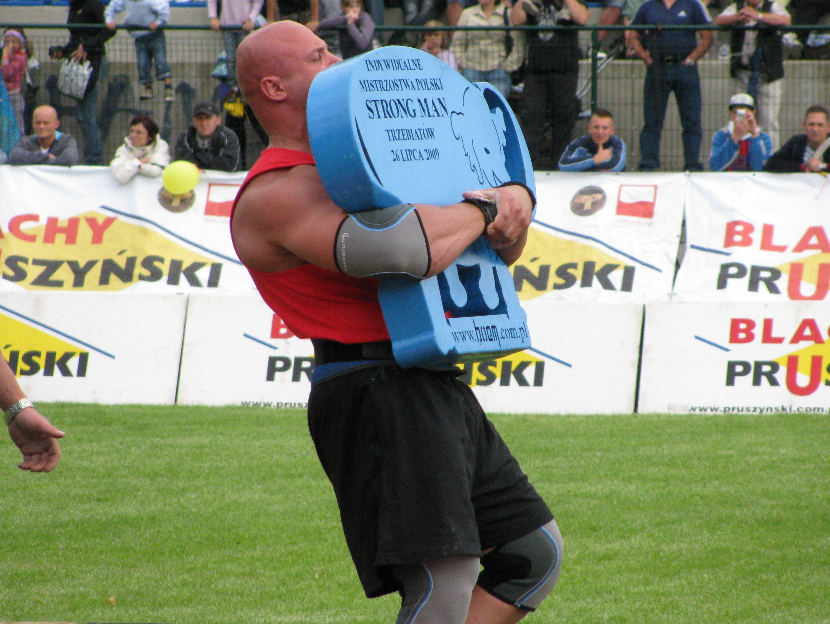 Strongmen event: Shield Carry (Husafell Stone), 230 kilograms for distance.